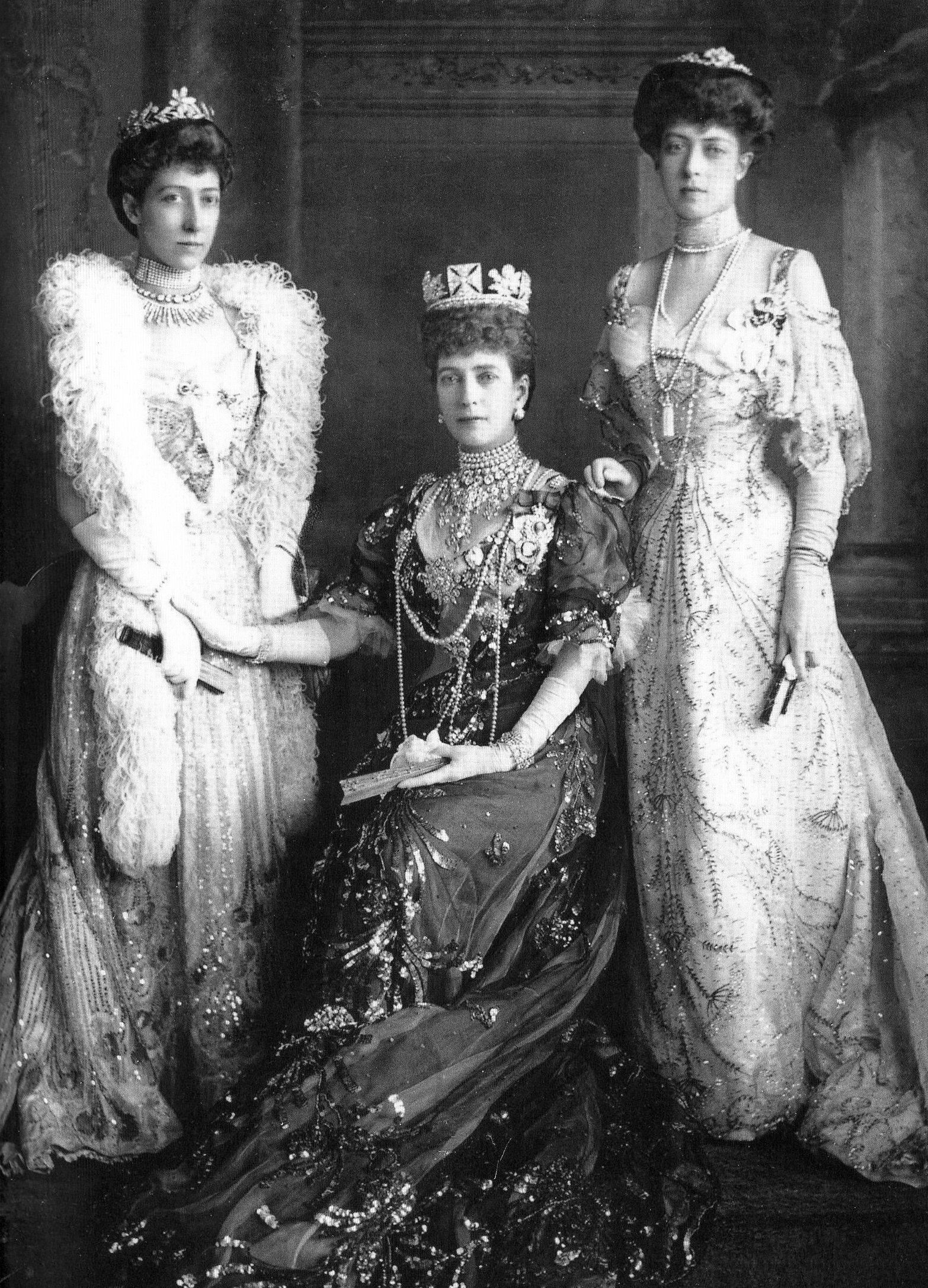 Portrait of Queen Alexandra of the United Kingdom and her daughters Louise and Victoria